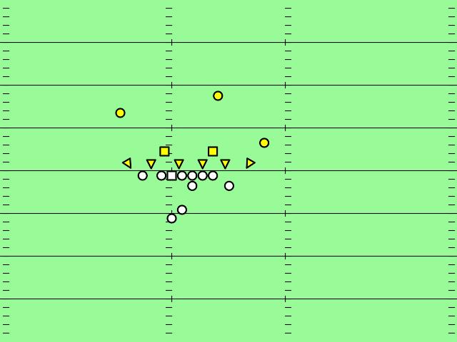 Single Wing versus a 6-2, derived from Championship Football by Dana Bible and further, derived from figure 1-1 of Homer Smith's book on offensive football. This shows a refinement of the 8 man front, where the cornerback clamps tight on the wingback, presenting a de facto 9 man line to the single wing offense.